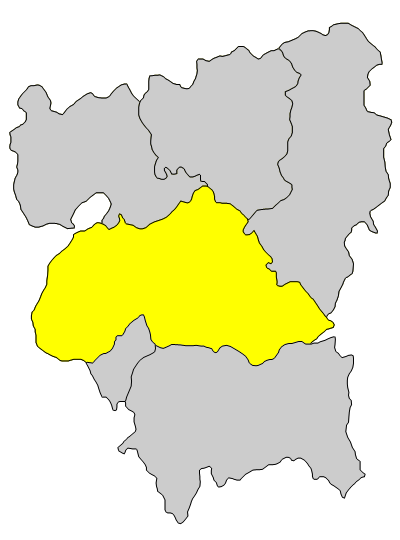 Location of Dongyuan County, Heyuan